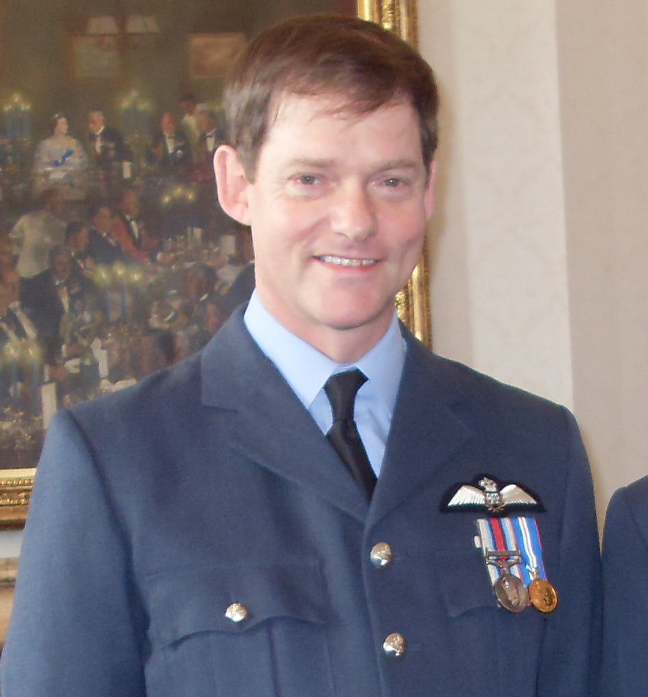 Air Commodore Ian Stewart RAF, Flt Lt A.R.T. Bennett RAF VR(T) and Air Commodore Barbara Cooper RAF at RAFC Cranwell